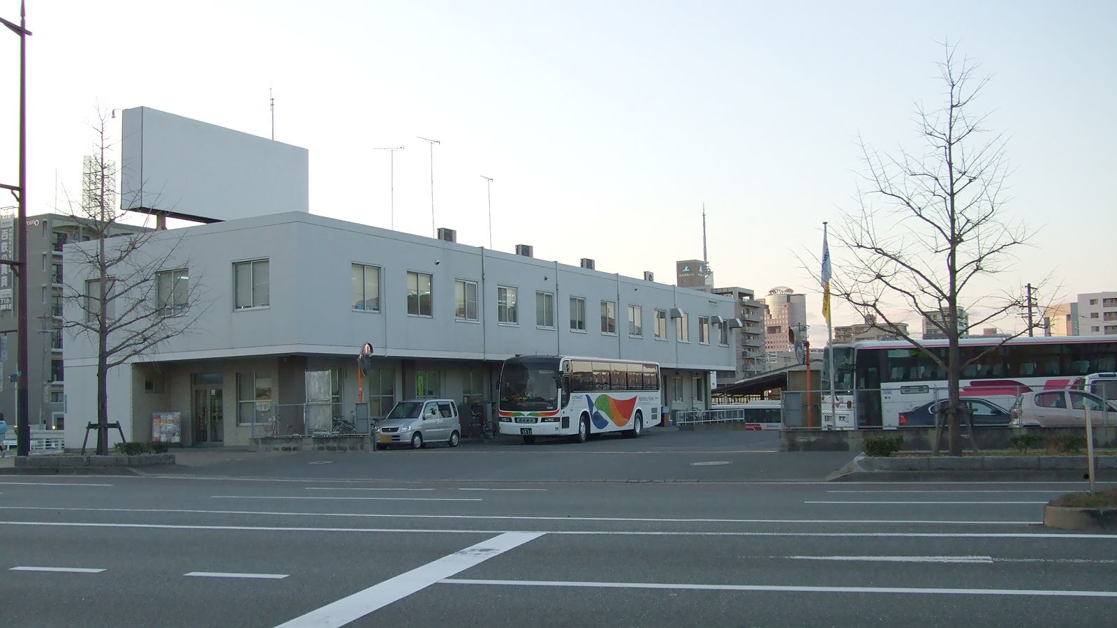 Nishitetsu Kanko bus headquarters